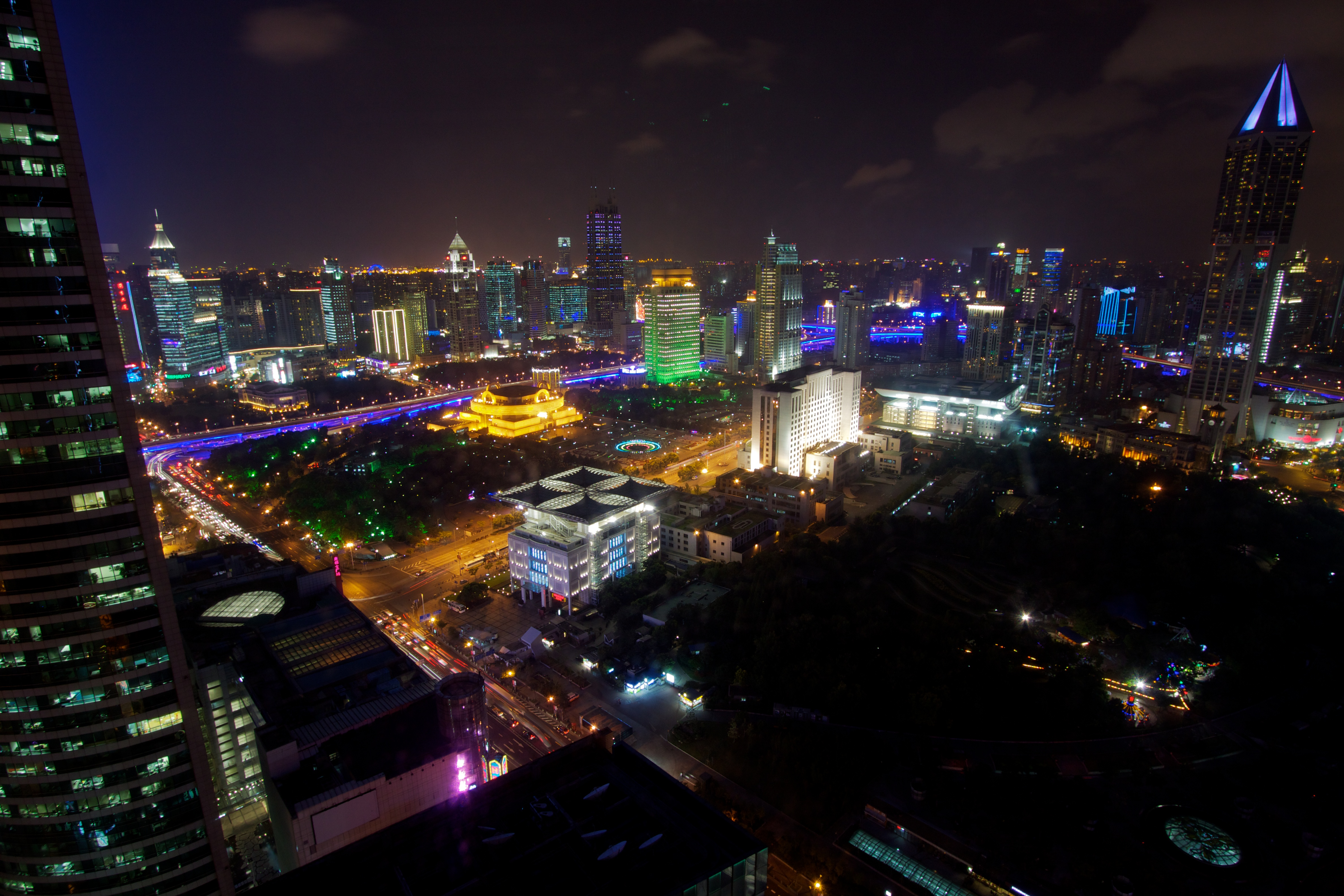 People's Square in Shanghai